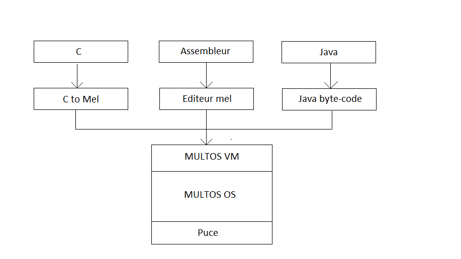 Les différents langages dans Multos